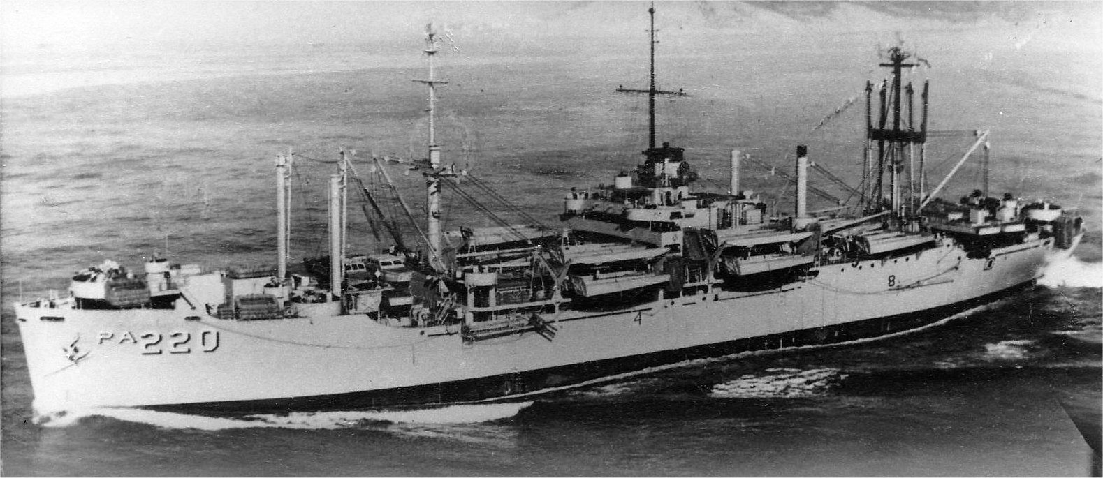 USS Okanogan (APA-220) under way in the Western Pacific, circa 1958.